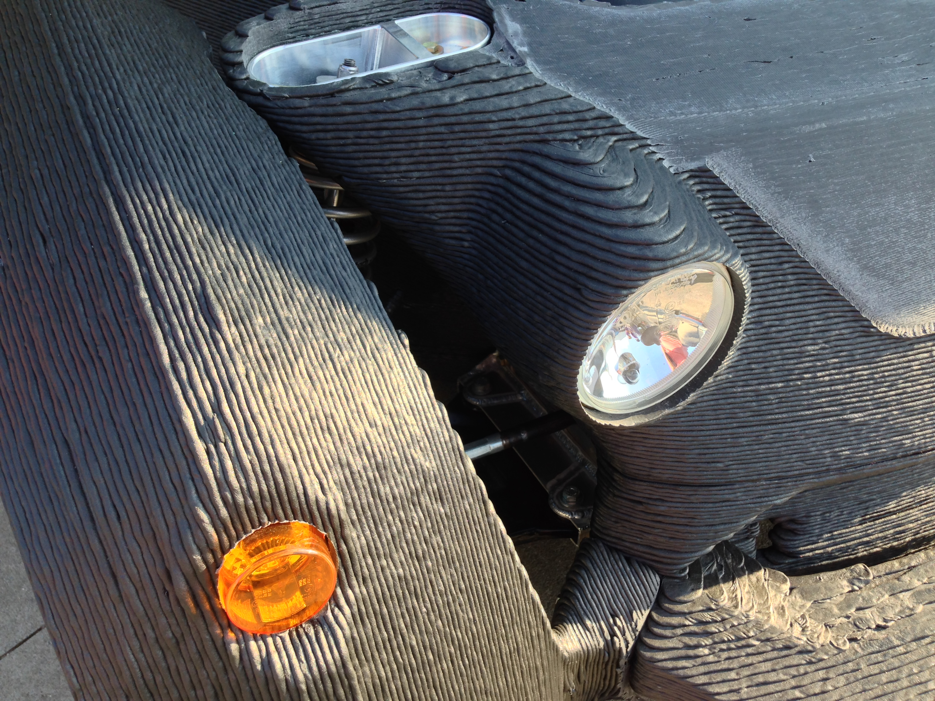 Printing details of Strati by Local Motors, the world's first 3D printed electric car.